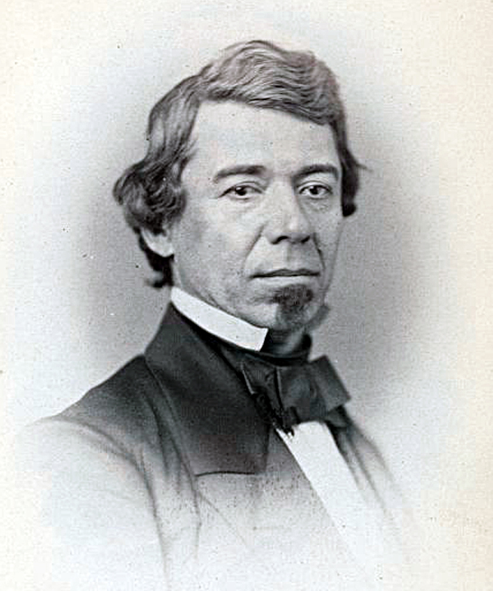 William High Keim, US Representative from Pennsylvania